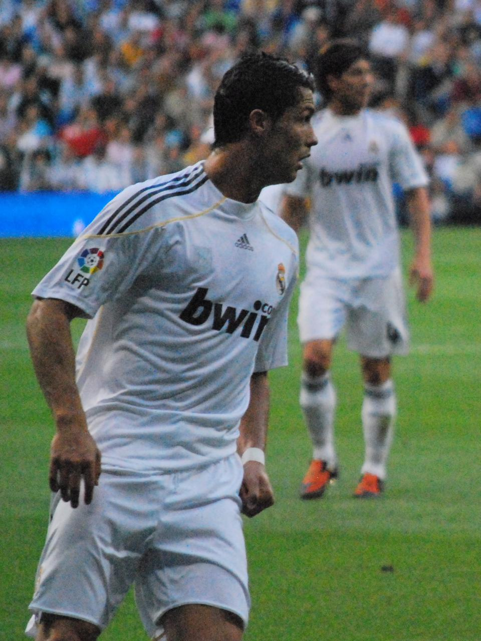 Cristiano Ronaldo playing for Real Madrid (5-0 vs Xerez)